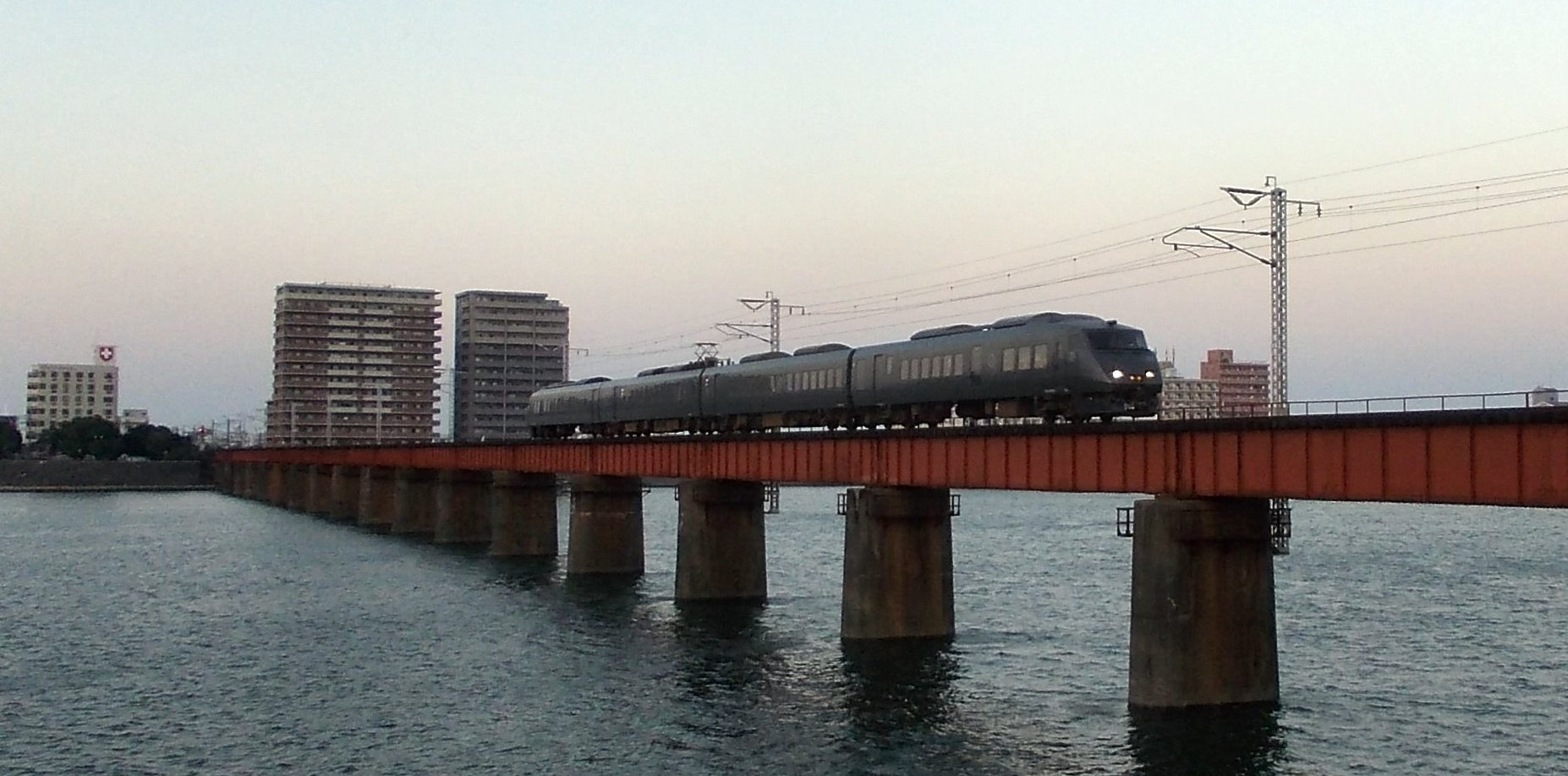 The Kirishima Limited Express train service from Miyazaki to Kagoshima-chūō crossing Oyodo River on Nippo Main Line, Miyazaki, Japan